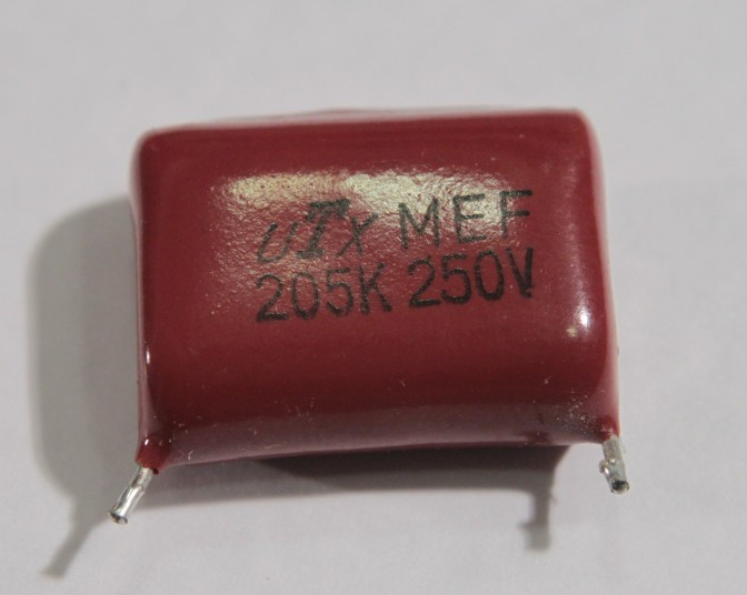 Mylar capacitor 205K-250V